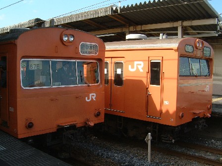 JR East 103 series EMUs at Mimami-Urawa Station